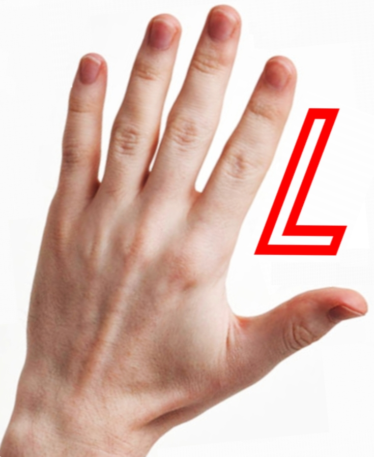 Not as simple as it seems; one fourth of mankind have difficulties with the distinction of left and right.